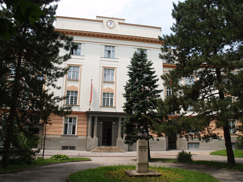 The Archives of Yugoslavija, Belgrade, Serbia